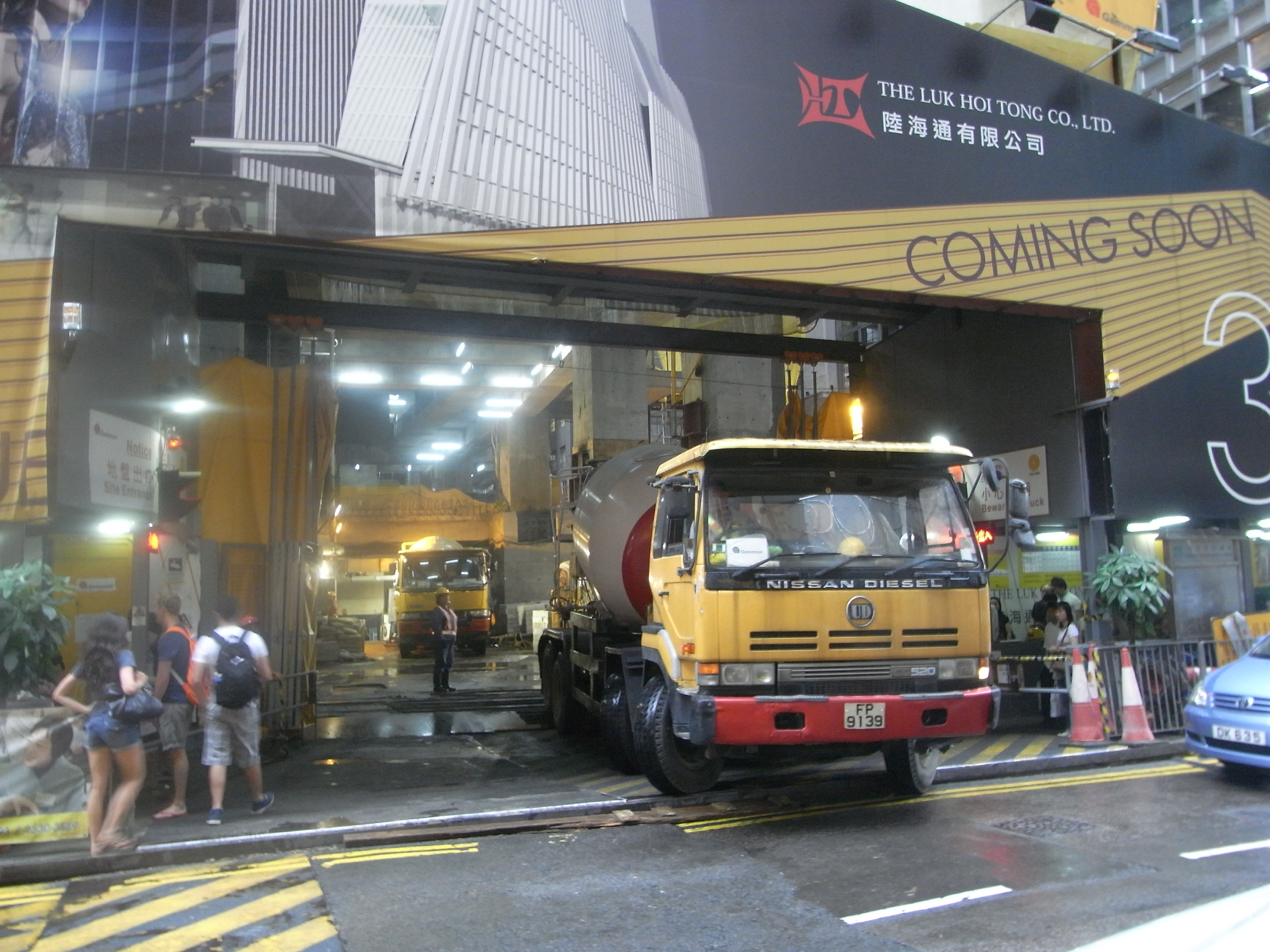 中環 UD Trucks 皇后大道中 陸海通大廈